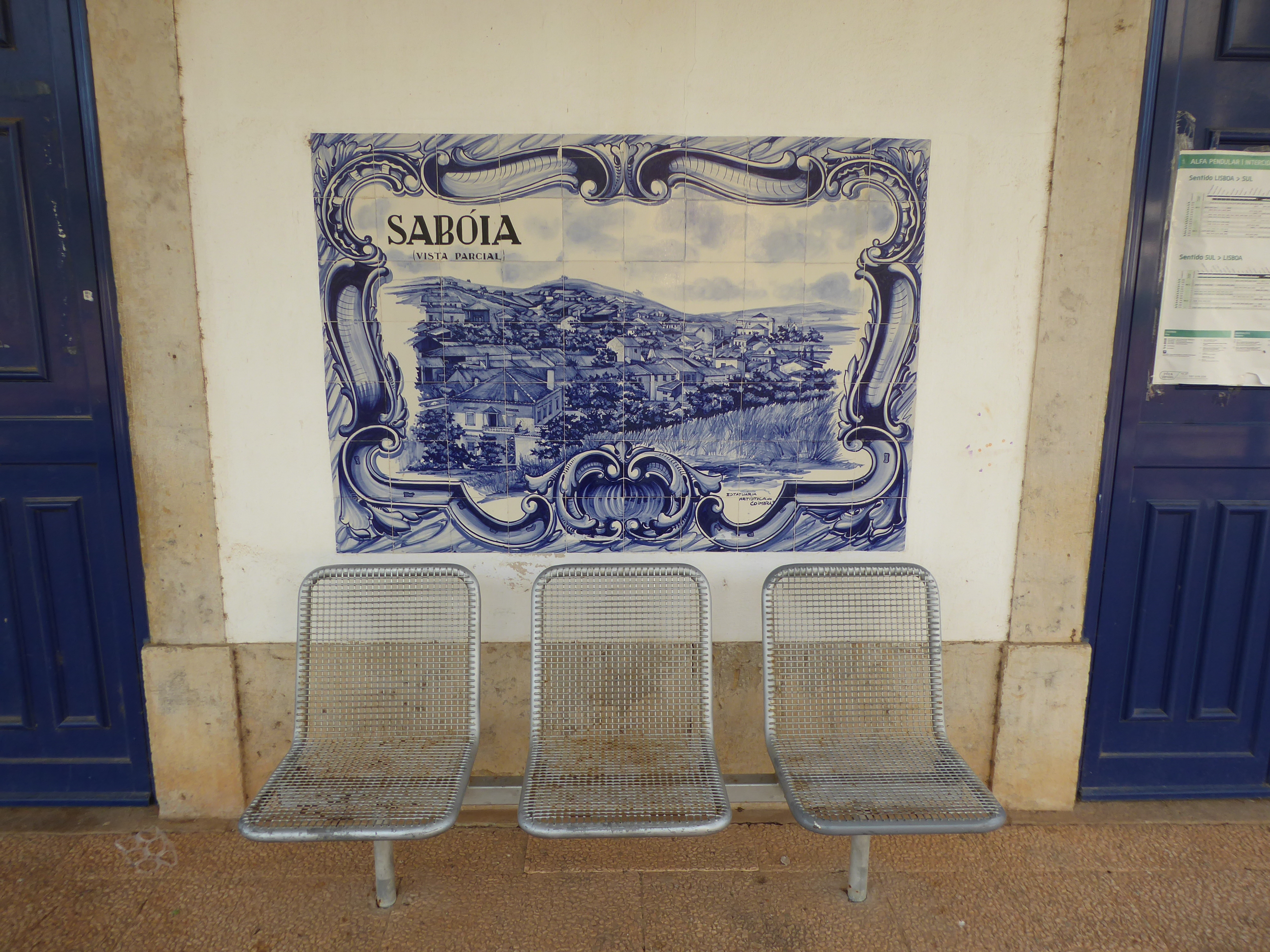 Santa Clara-Saboia train station, Portugal